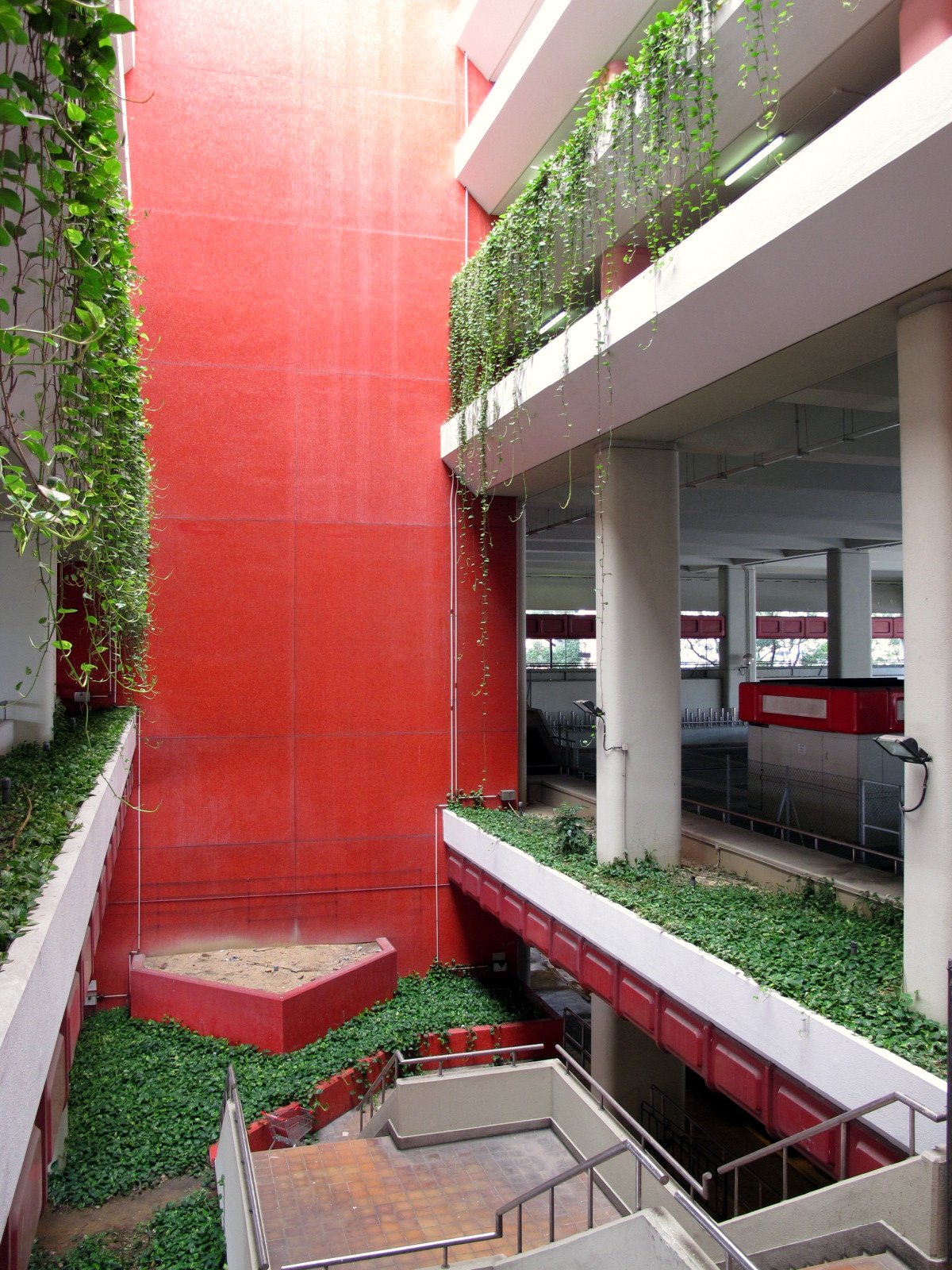 Tsuen Wan Transport Complex